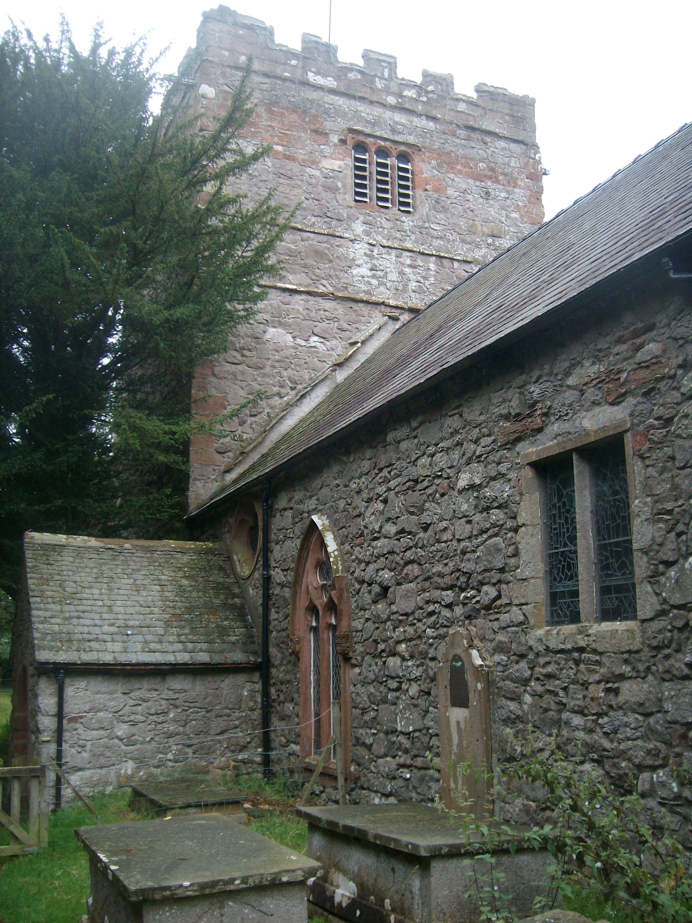 St. Mary and St. Michael's Church, in Great Urswick, Lancashire. Tradition says that it was built in the 9th or 10th centuries, and there was certainly a church there in 1148.